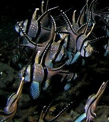 On a nightdive in Lembeh. These guys look like they are floating midair.